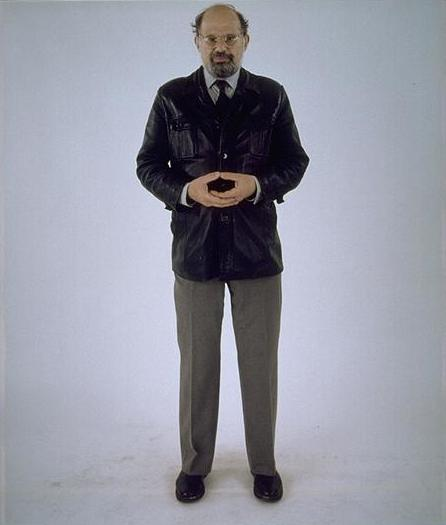 Depicted person: Allen Ginsberg – American poet